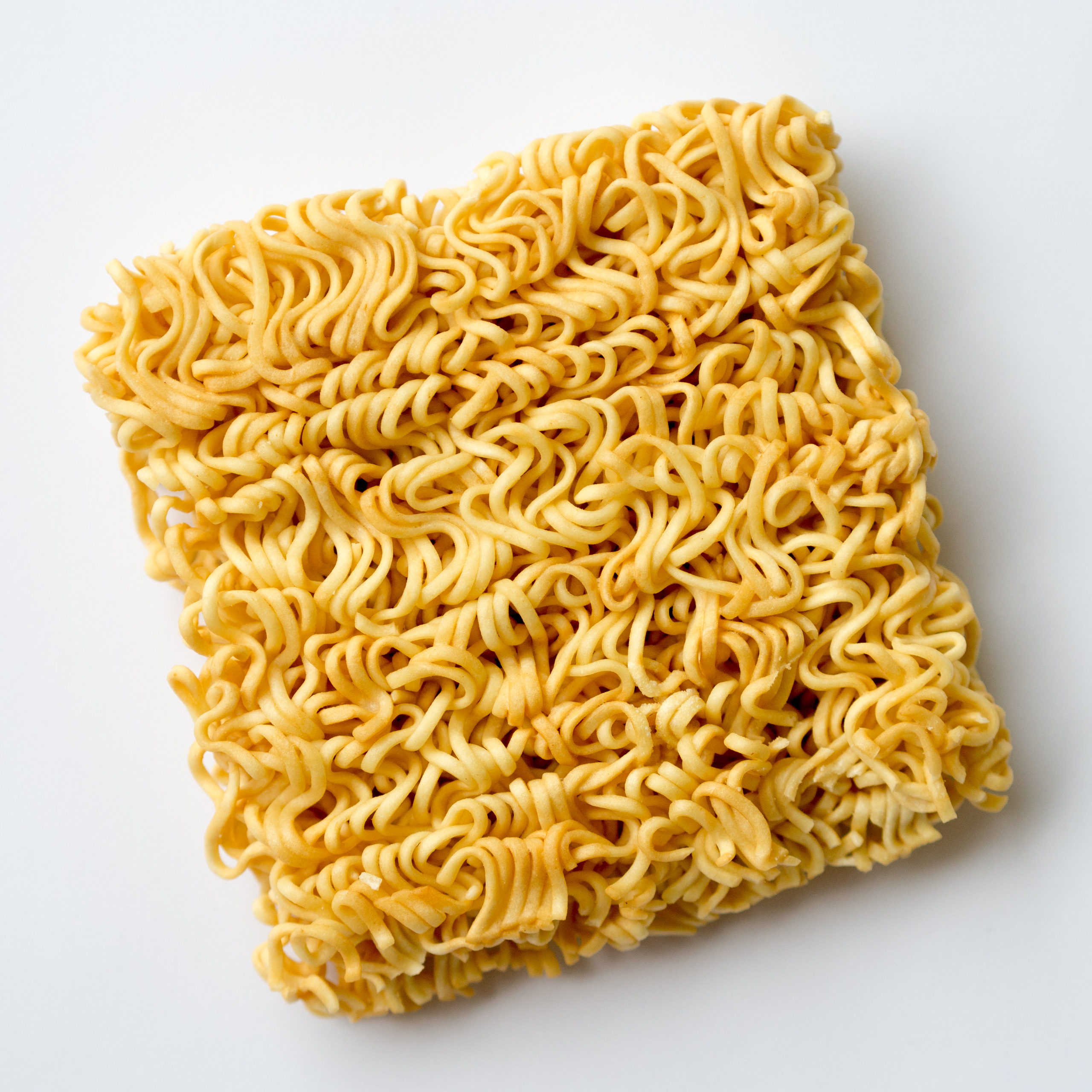 The noodle block of a Mama instant noodles, standard size.